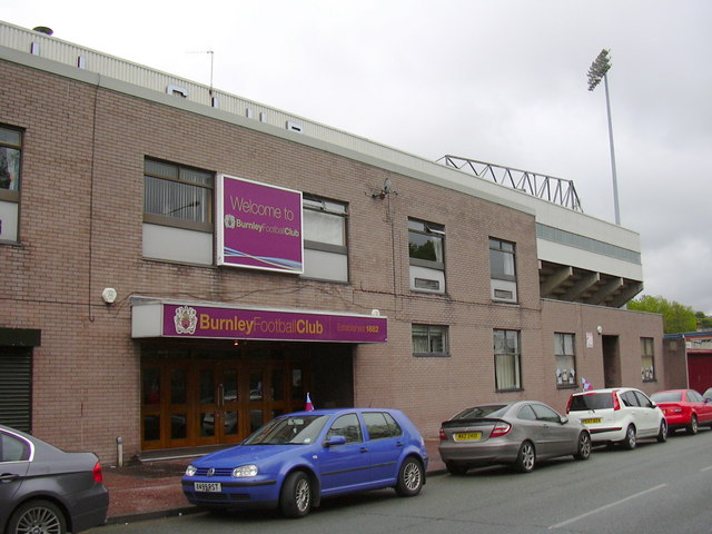 Burnley Football Club, Turf Moor